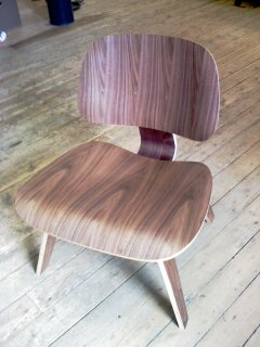 The Eames Lounge Chair Wood - LWC chair. This one is in the Conchango design studio in Southwark Bridge Road.